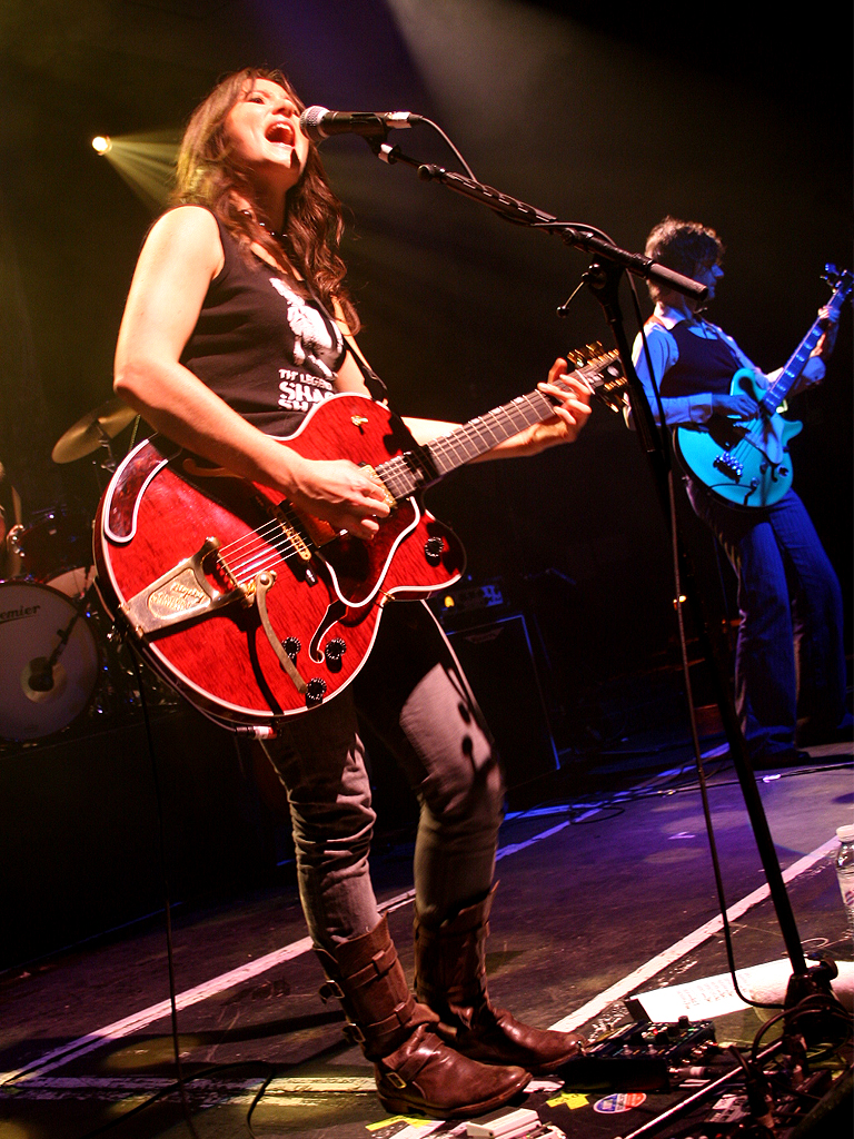 KT Tunstall performing at the Cardiff Union.